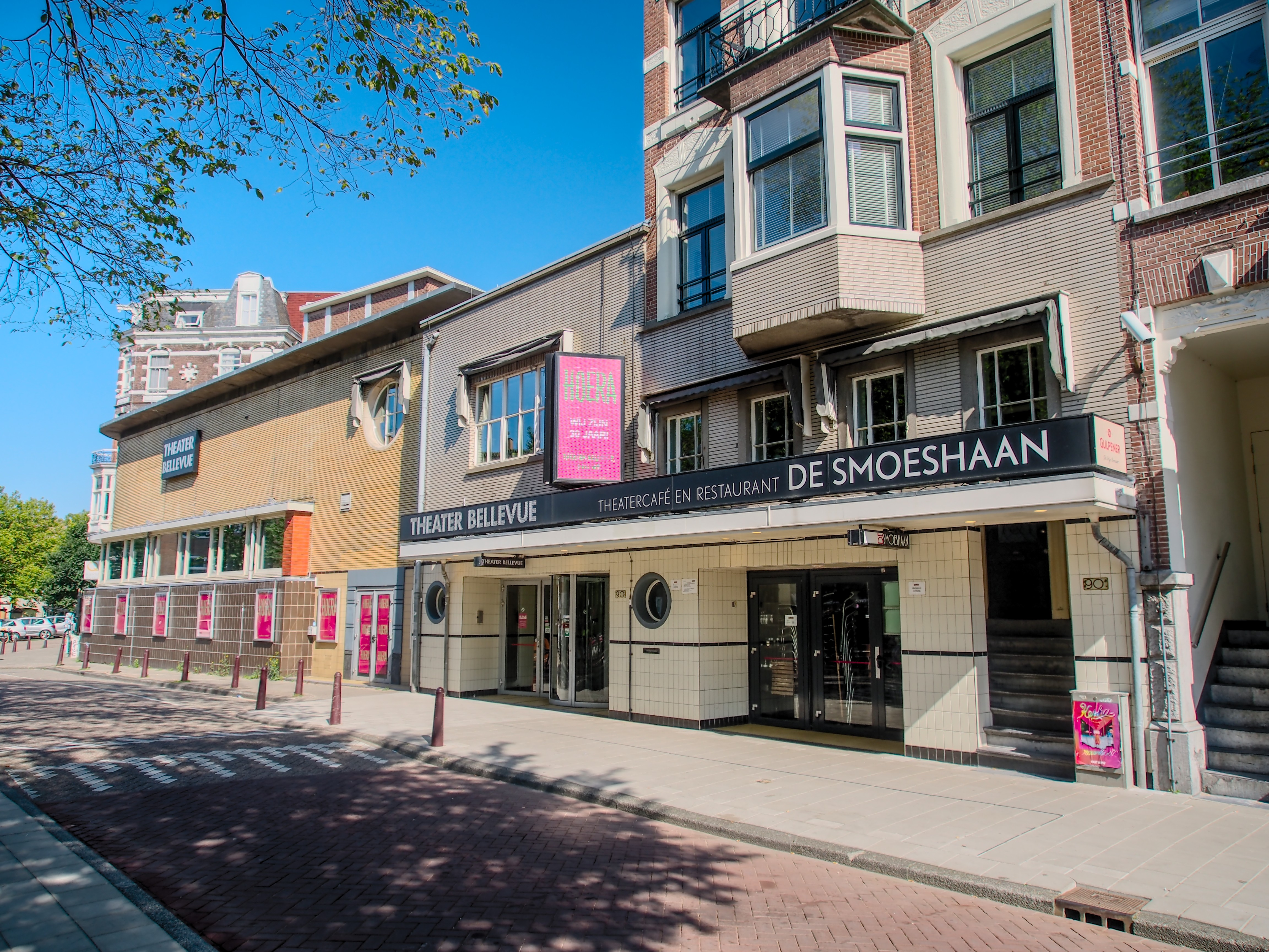 Photo taken in Amsterdam, The Netherlands.